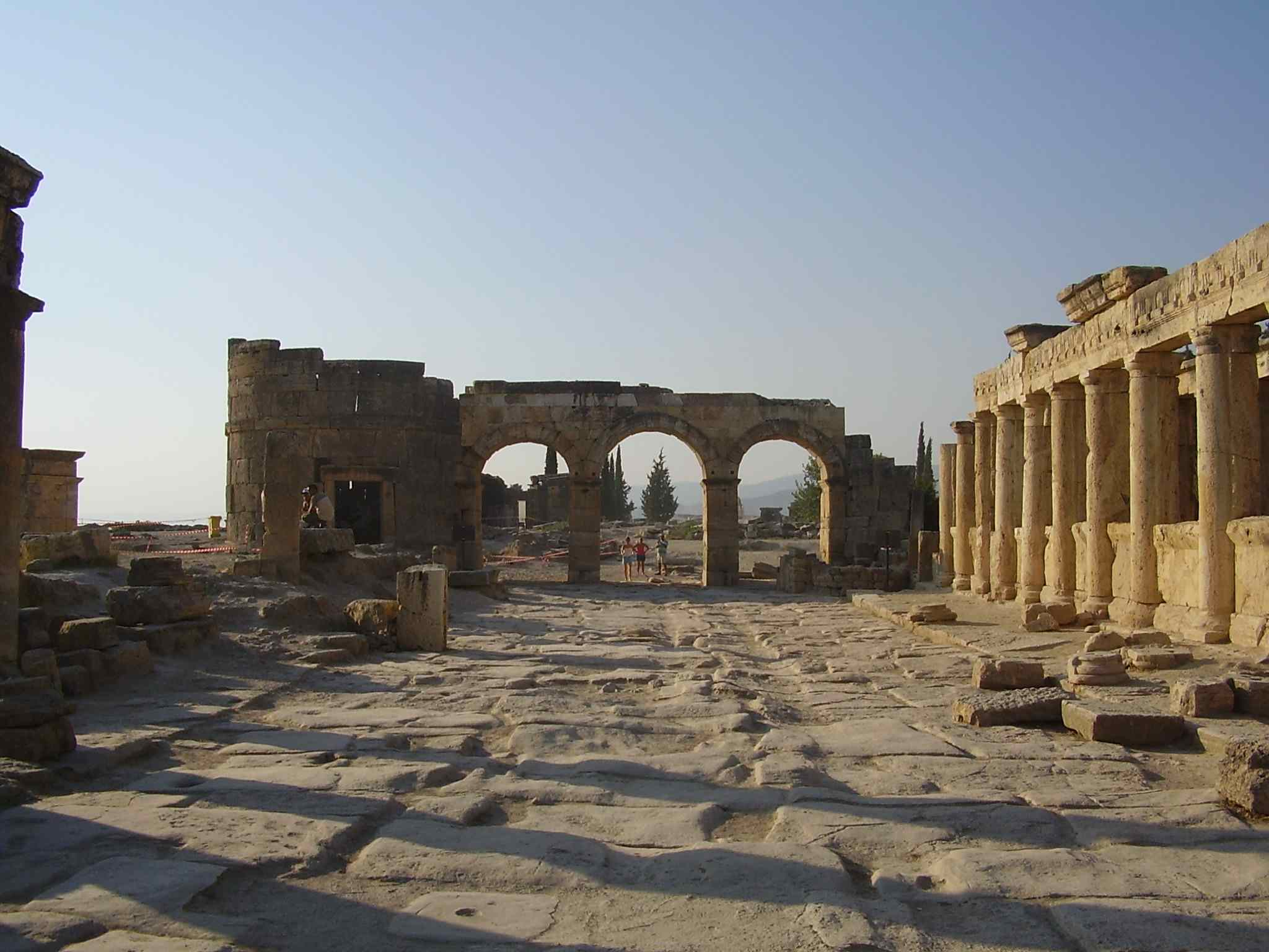 Roman remains at Hierapolis, Pamukkale.